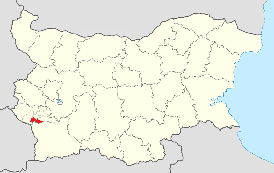 Location map of Kocherinovo Municipality within Bulgaria and Kyustendil province